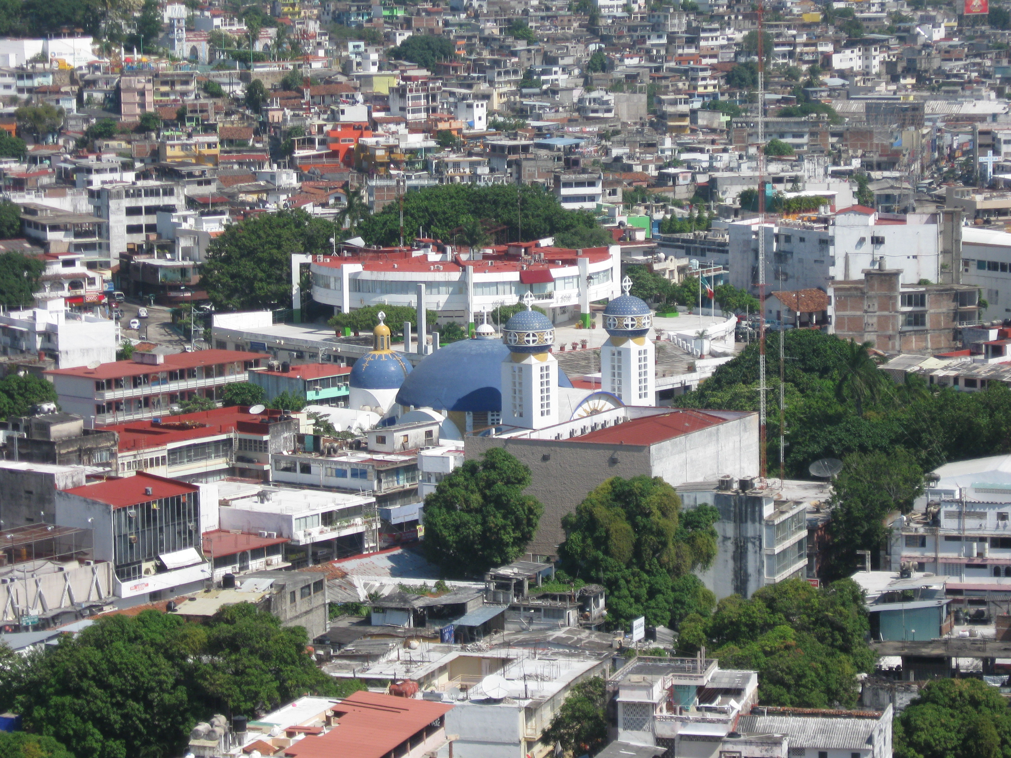 Downtown of Acapulco, Guerrero, Mexico.